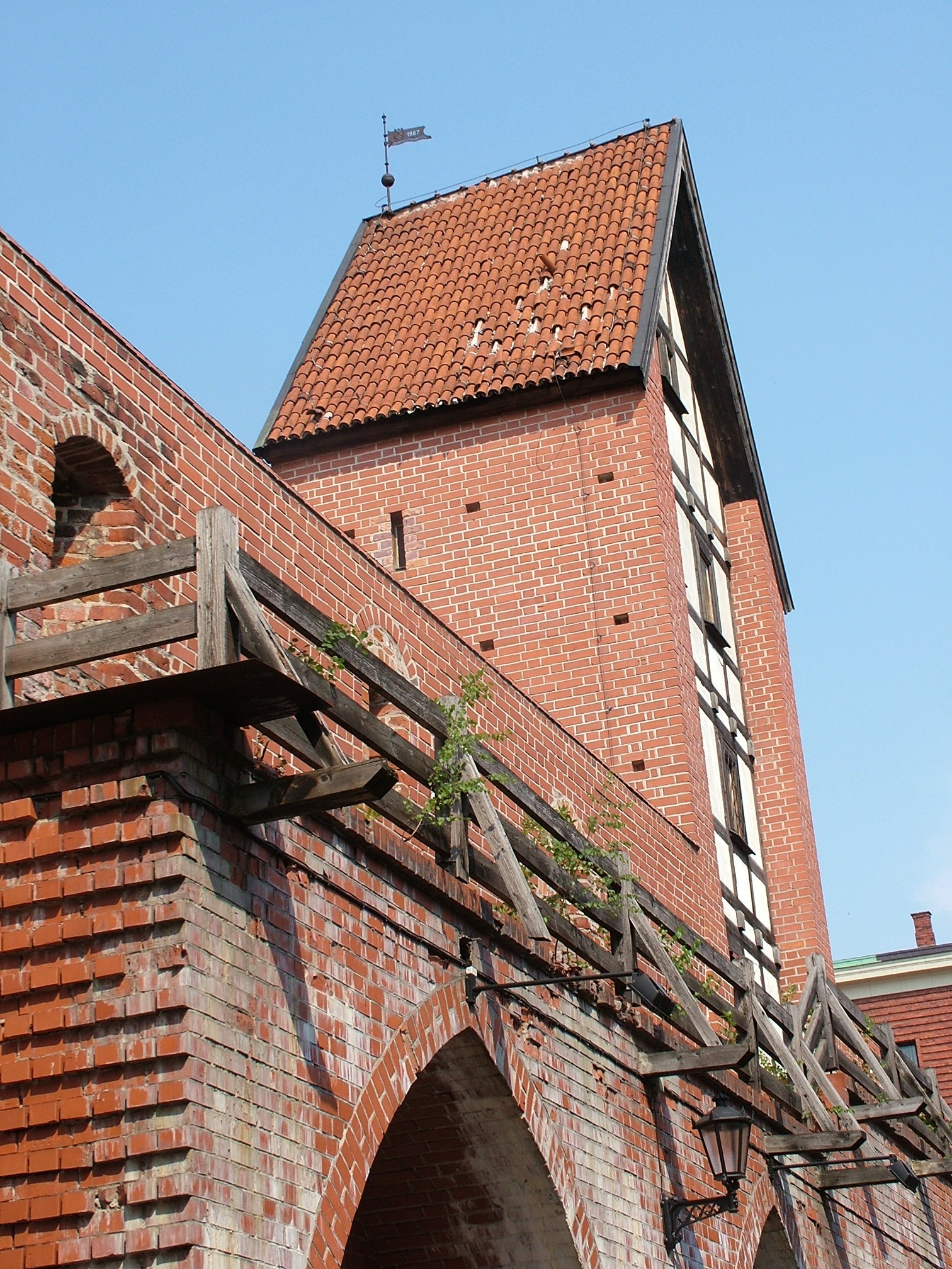 Rebuilded wall in Riga, Latvia.